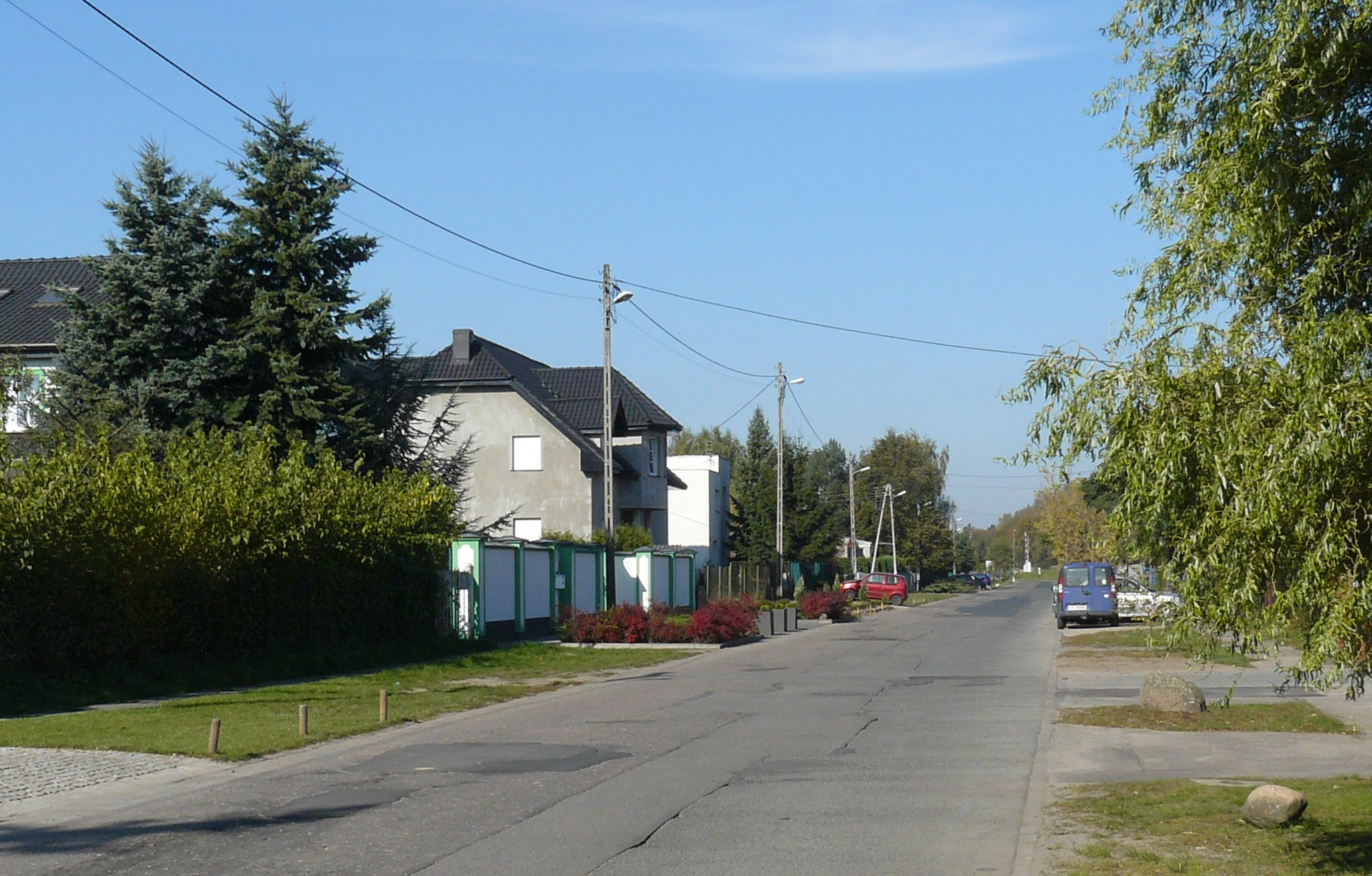 Czluchowska Street, Poznan.